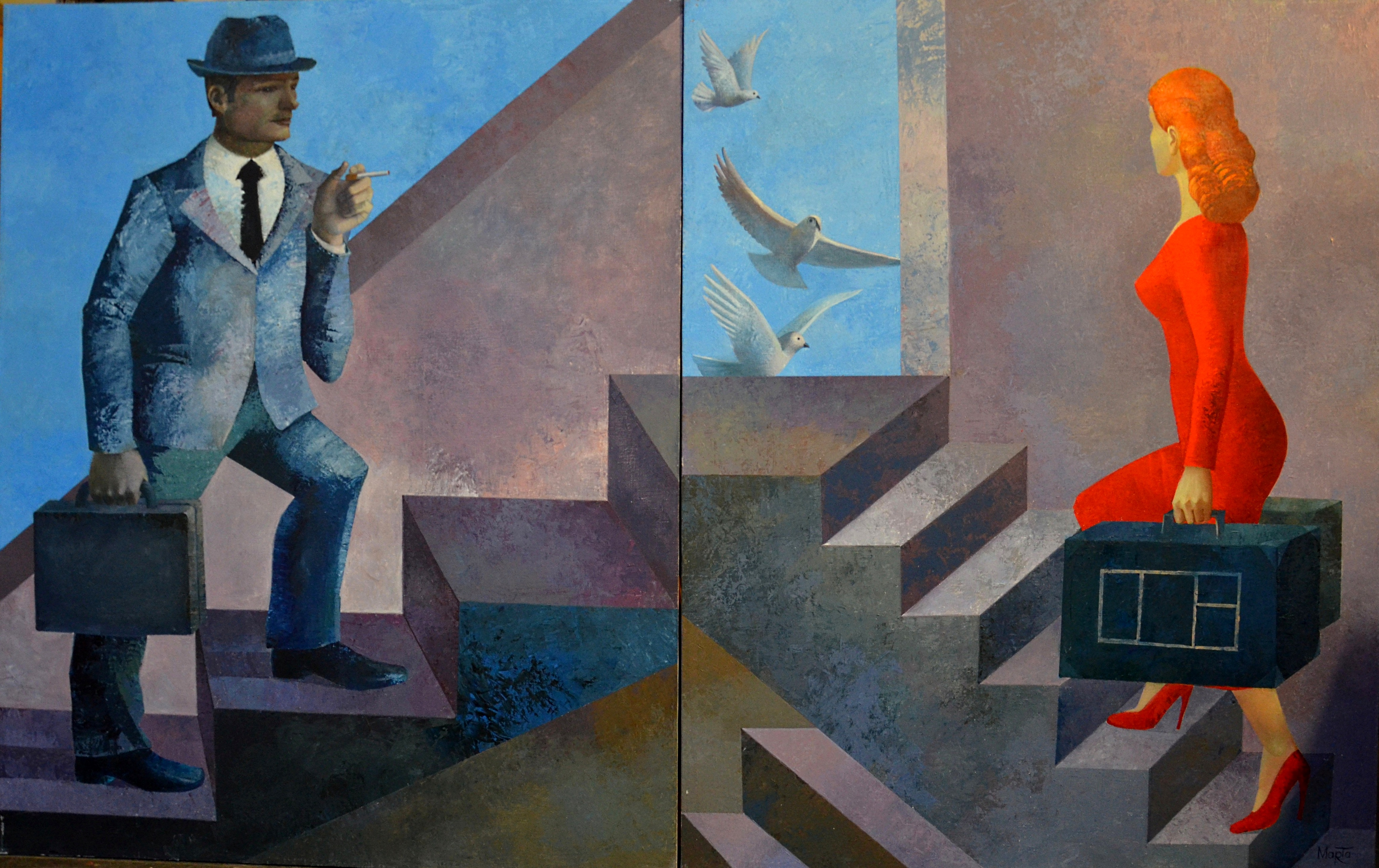 Martha Shmatava «Movement», 2014. Exhibition «Clara and Rosa». Museum of Contemporary Fine Arts, Minsk